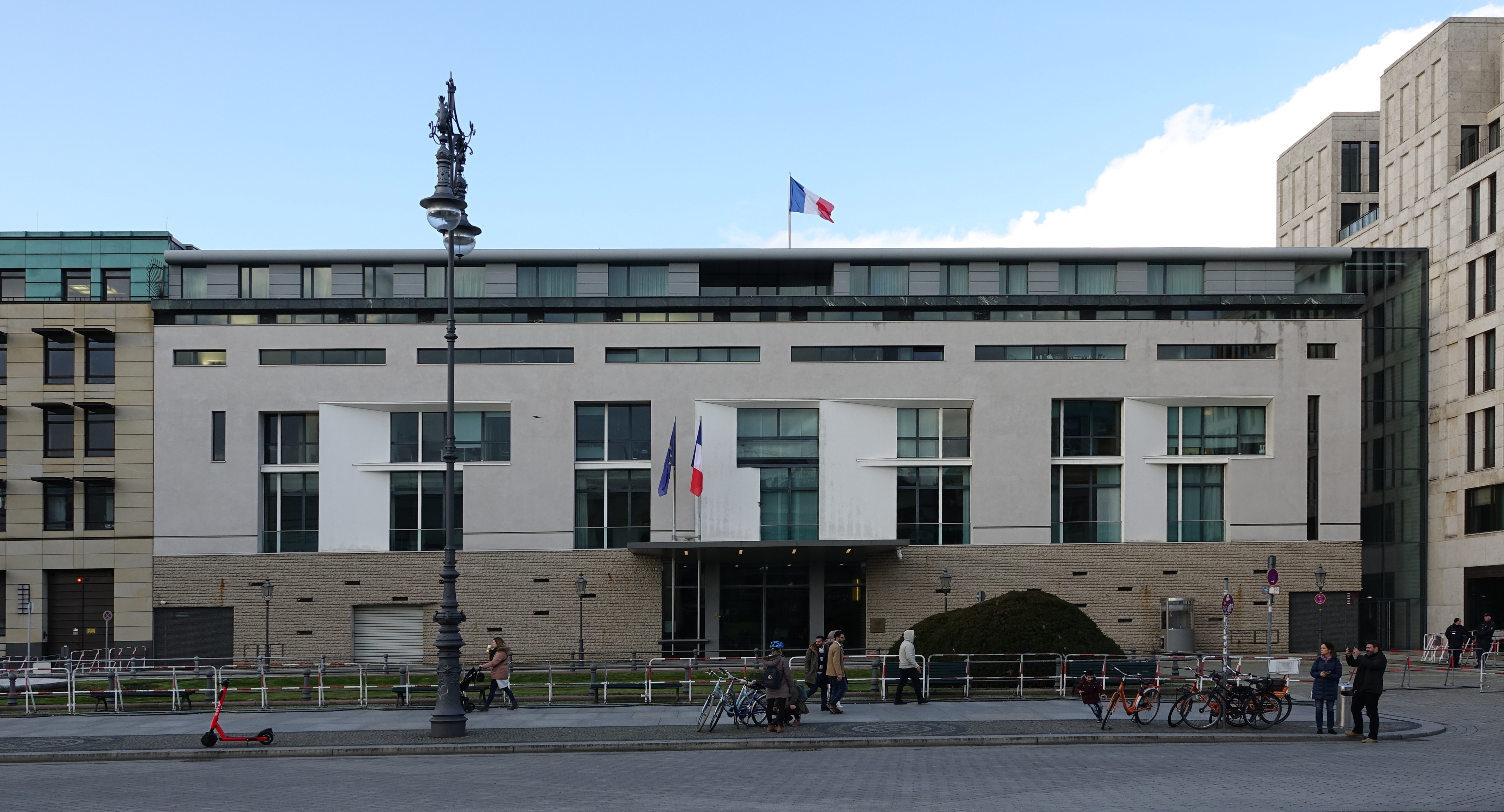 French Embassy in Berlin (Germany).